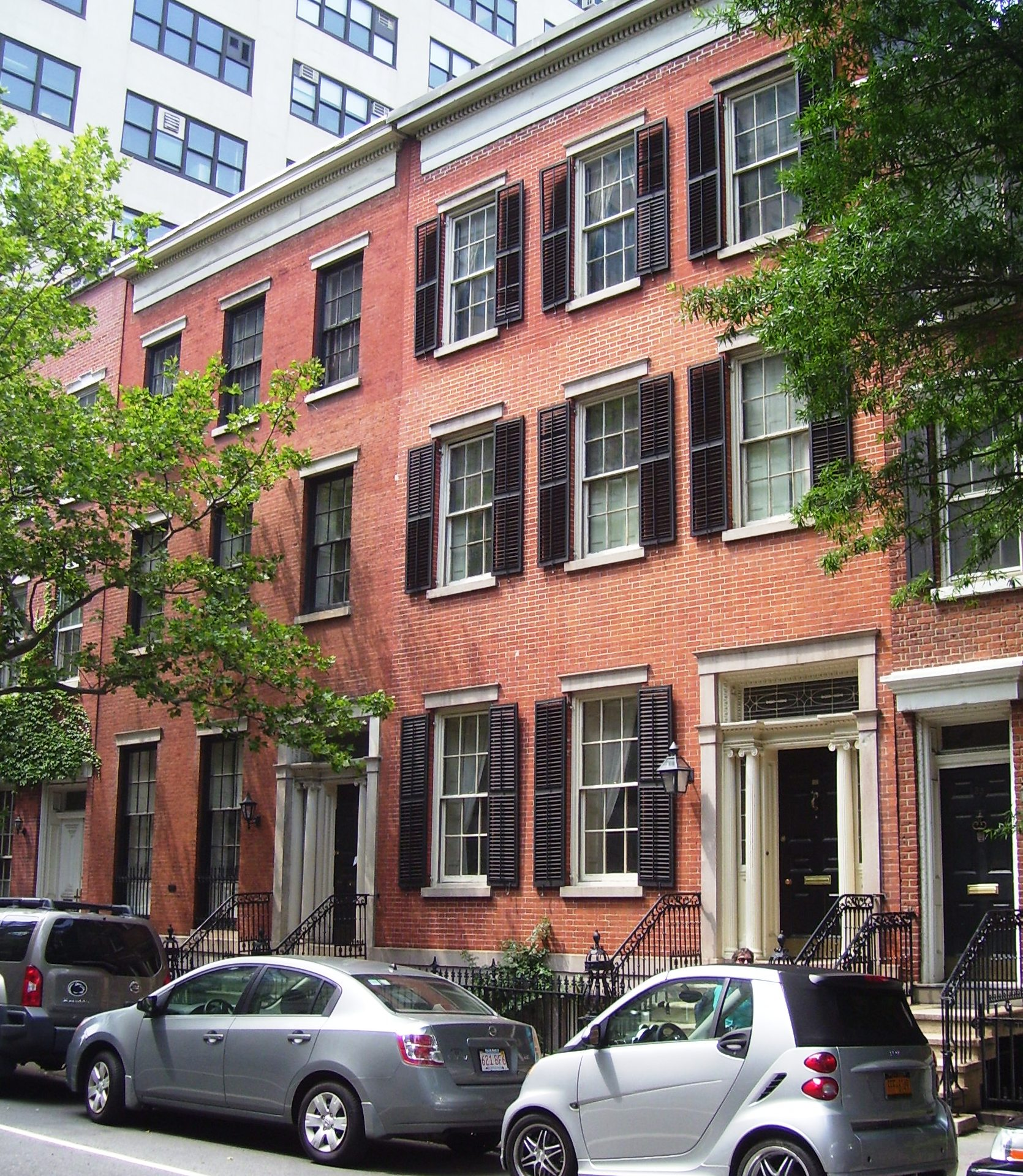 35 (right) and 37 (left) Charlton Street between Sixth Avenue and Varick Street in the South Village section of the Greenwich Village neigborhood of Manhattan, New York City, were built c.1820 in the Federal style. They are located within the Charlton - King - Vandam Historic District. The house on the left, #37 and its neighbor to the west, #39, were called by the New York City Landmarks Preservation Commission "the two most important houses in age, richness of style, scale and perfection of preservation" in the district. (Source: "NYCLPC Charlton - King - Vandam Designation Report")